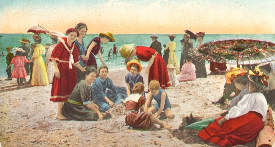 Recreation on California beach, 1st decade of 20th century, from period postcard